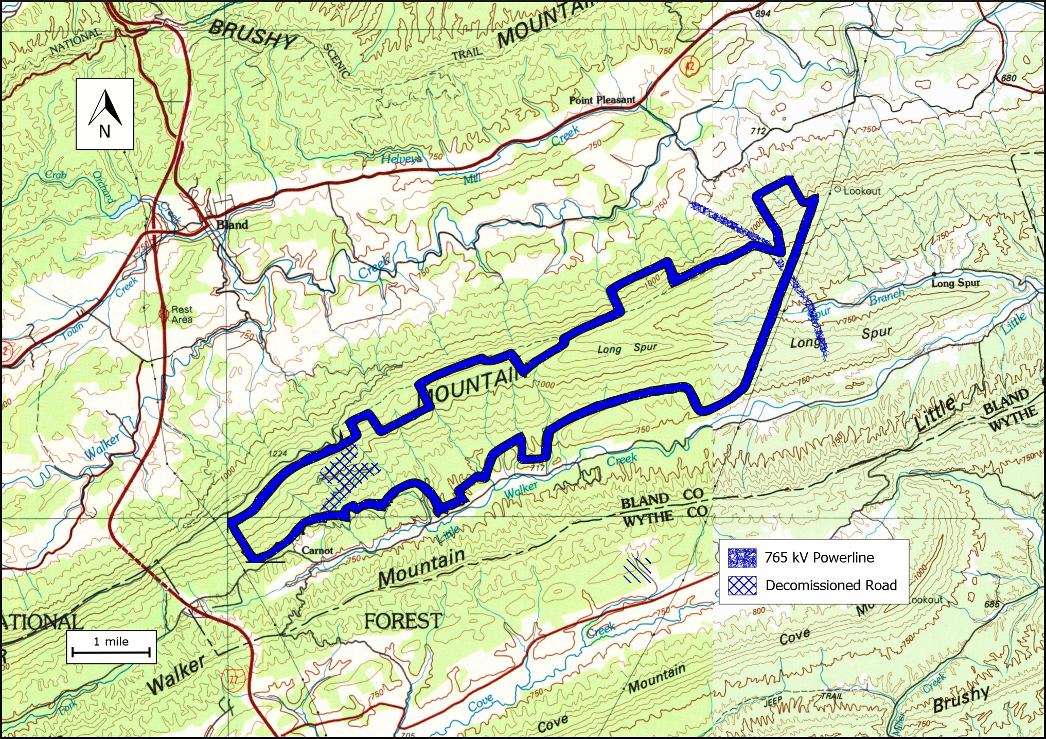 Boundary of the Long Spur wildland in the Jefferson National Forest as identified by the Wilderness Society